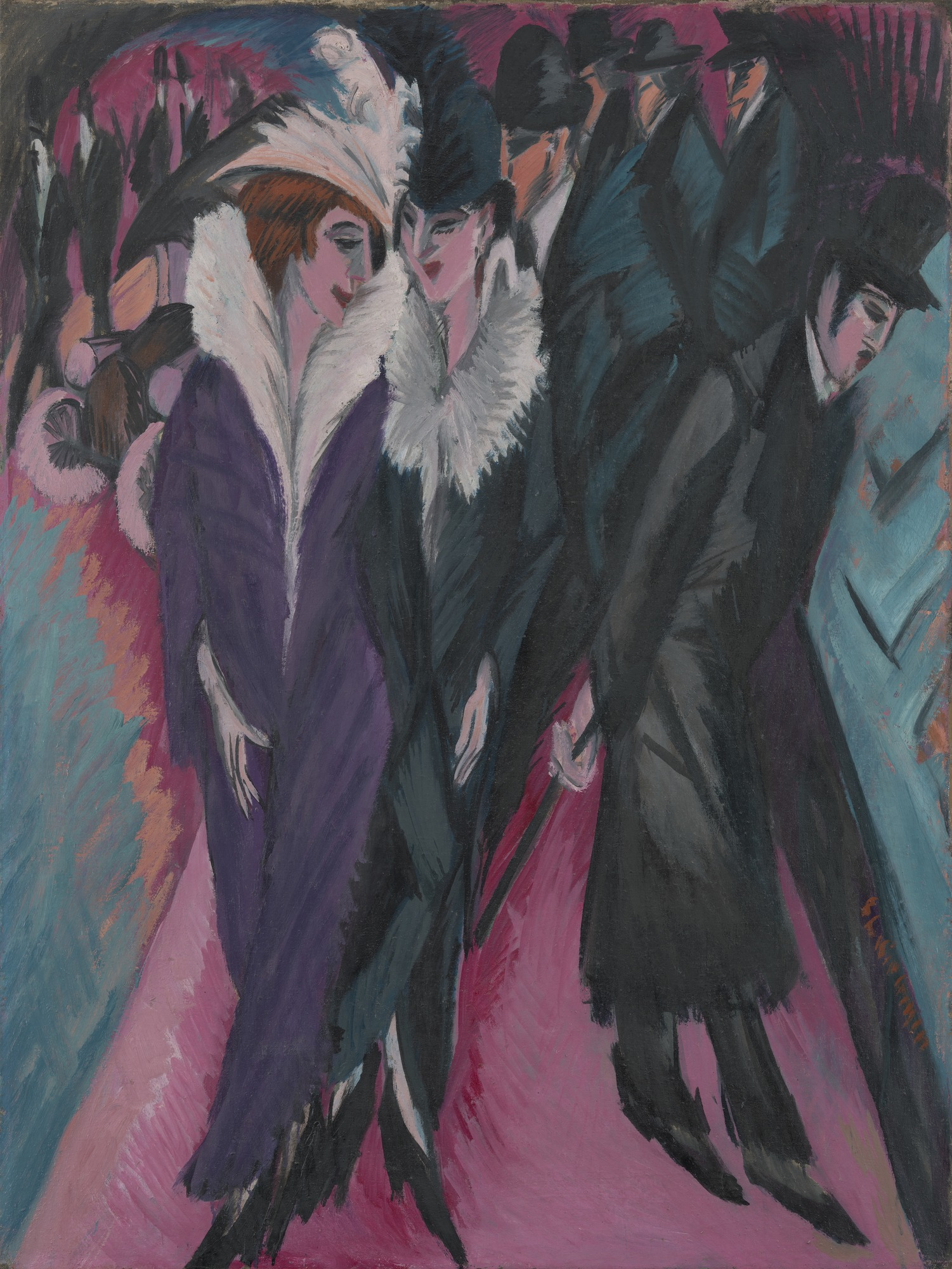 Ernst Ludwig Kirchner, 1913, Street, Berlin, oil on canvas, 120.6 x 91.1 cm, Museum of Modern Art, New York